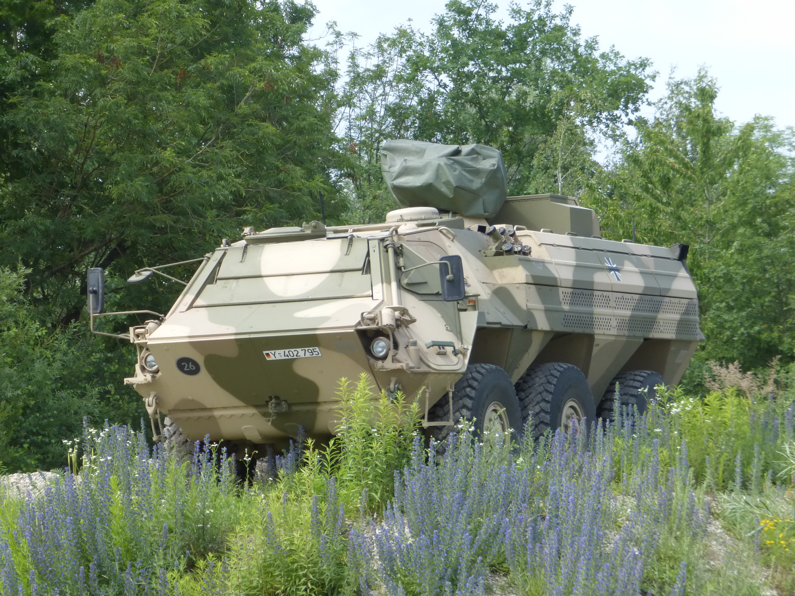 Armoured vehicle "Fuchs" Mark A8 with improved mine- and IED-protection at the "Day of the Bundeswehr 2018" in Ingolstadt, Bavaria